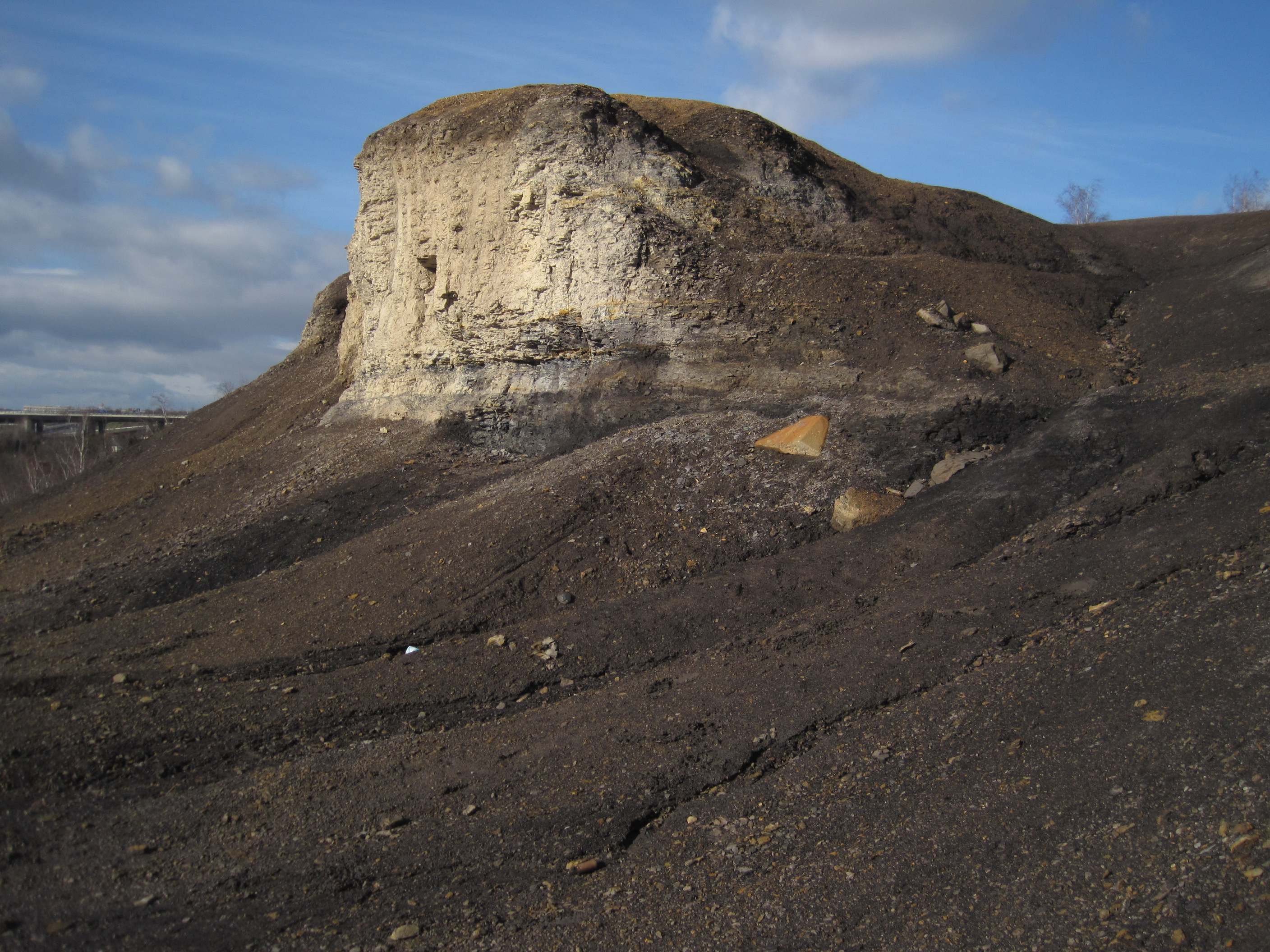 Natural monument Cihelna v Bažantnici in Prague, Czech Republic